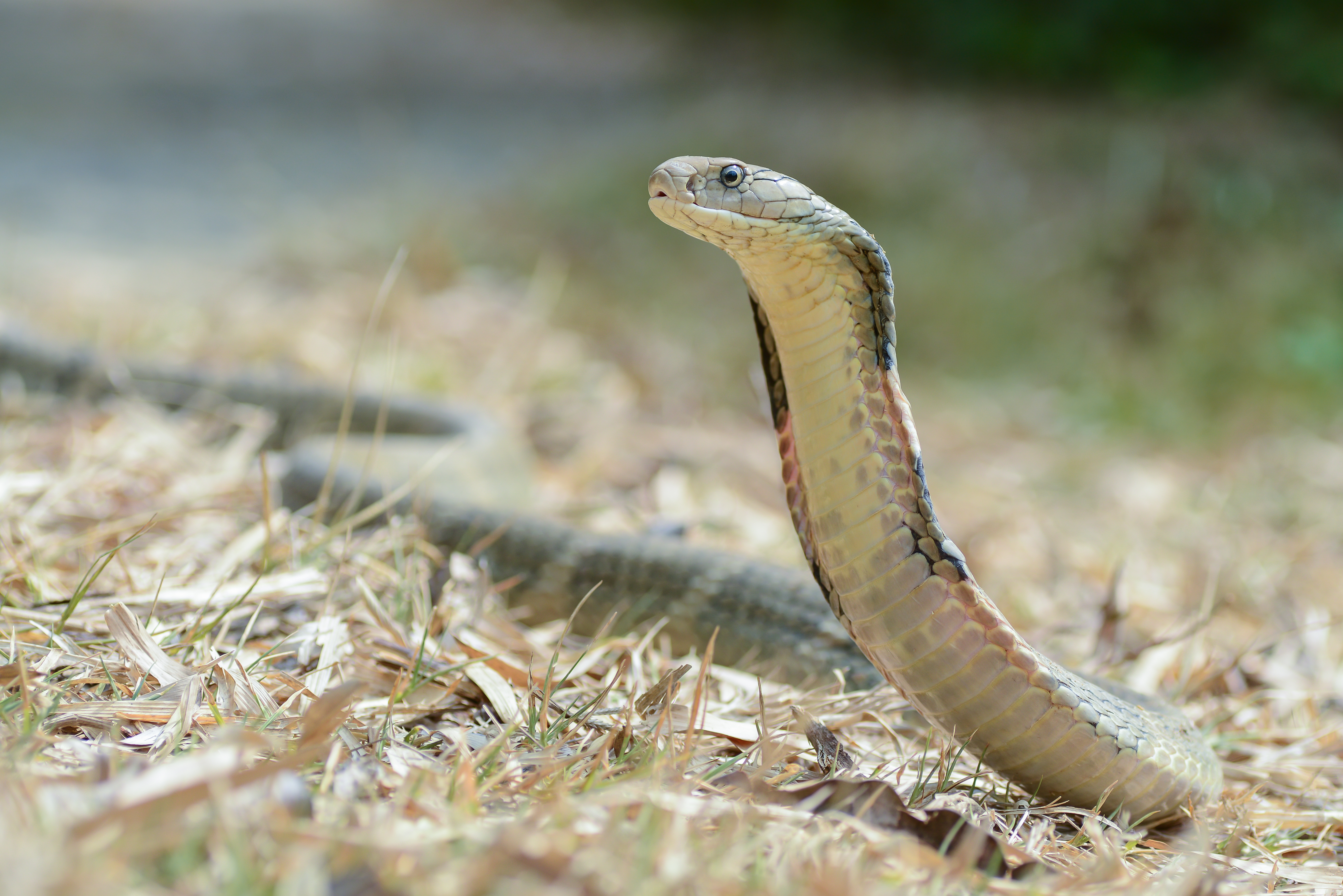 Ophiophagus hannah, King cobra- Kaeng Krachan National Park. Photo by Thai National Parks